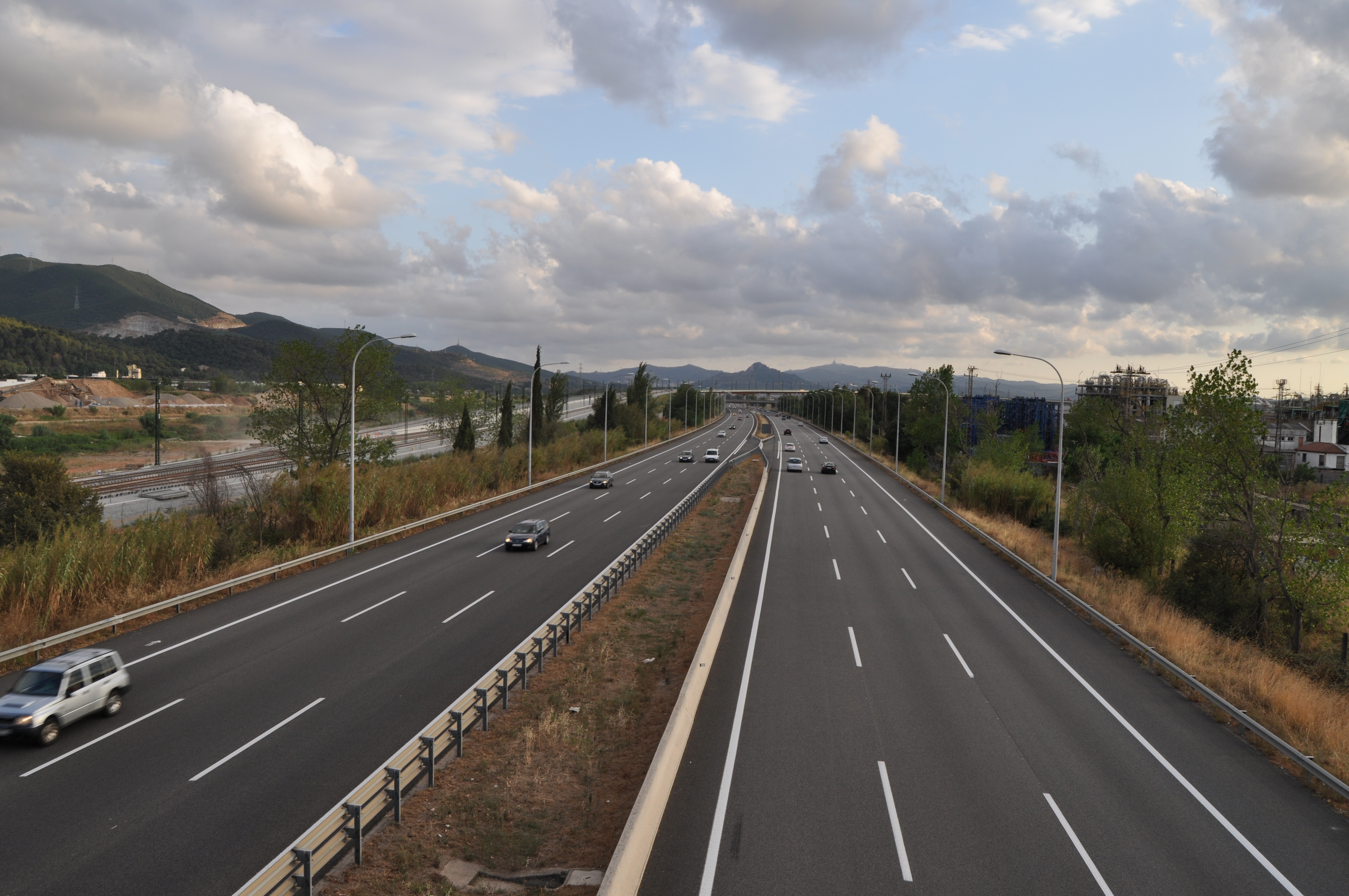 Autopista C-33 in Mollet del Vallès (Spain).